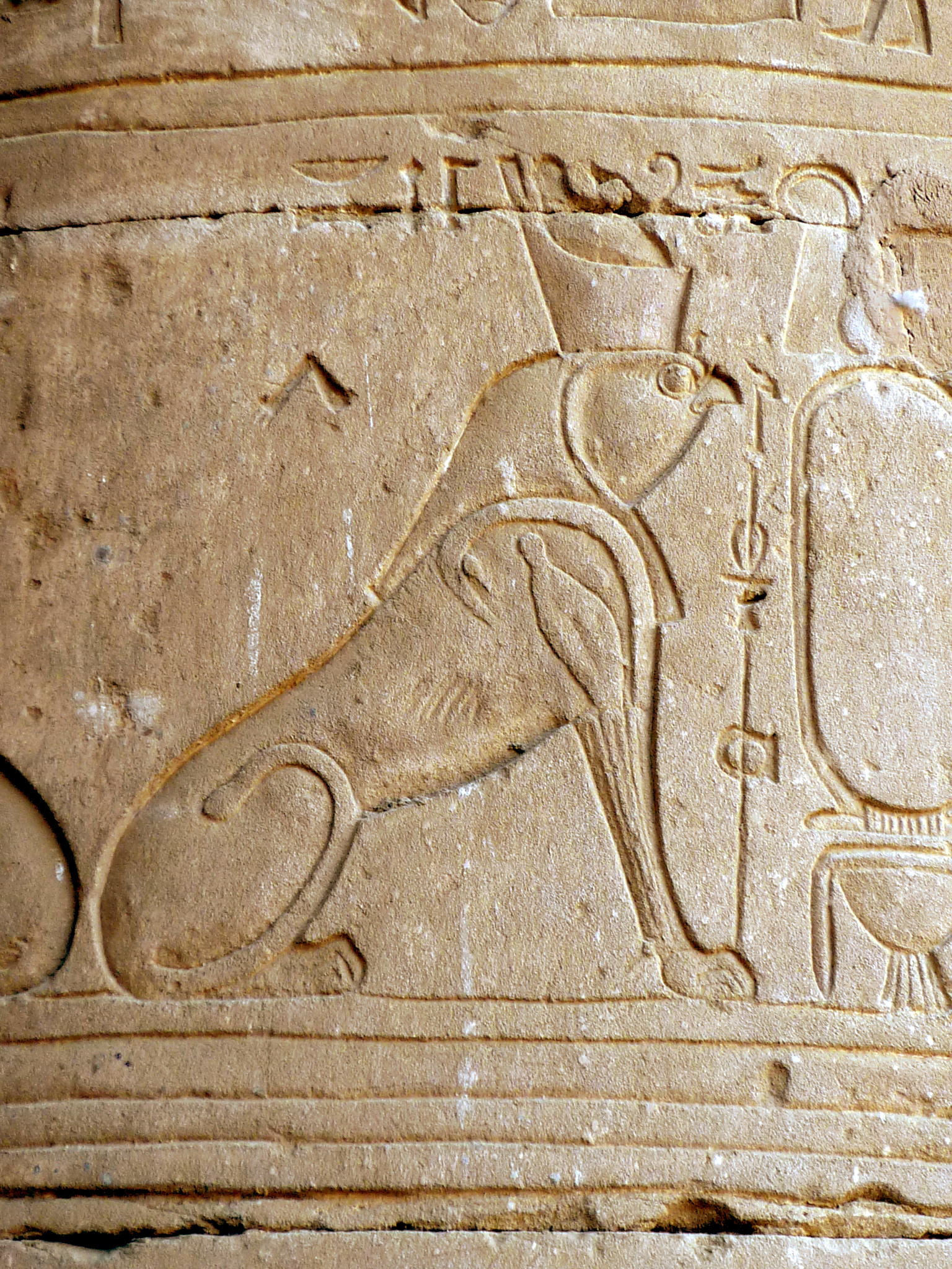 Wall relief of Horus (hieracosphinx), temple of Edfu, Egypt.